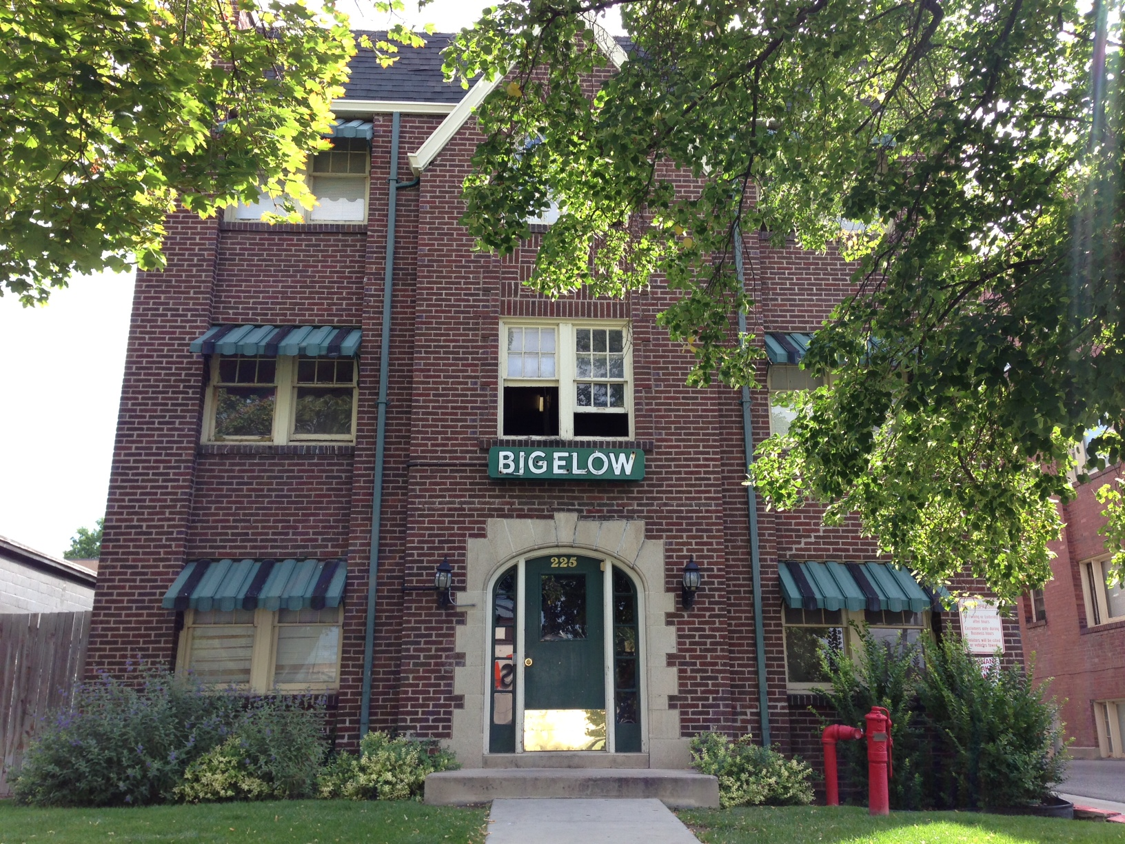 Bigelow Apartments, 225 S. 400 East Central City